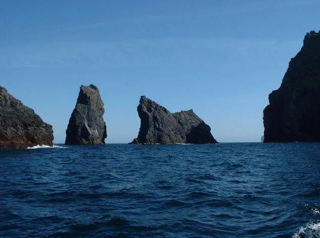 Sea stacks in the Sound of Soay We moved about these vicious rocks with twin powerful motors. The thought of rowing or sailing wooden boats through these waters as the natives did is mind blowing.